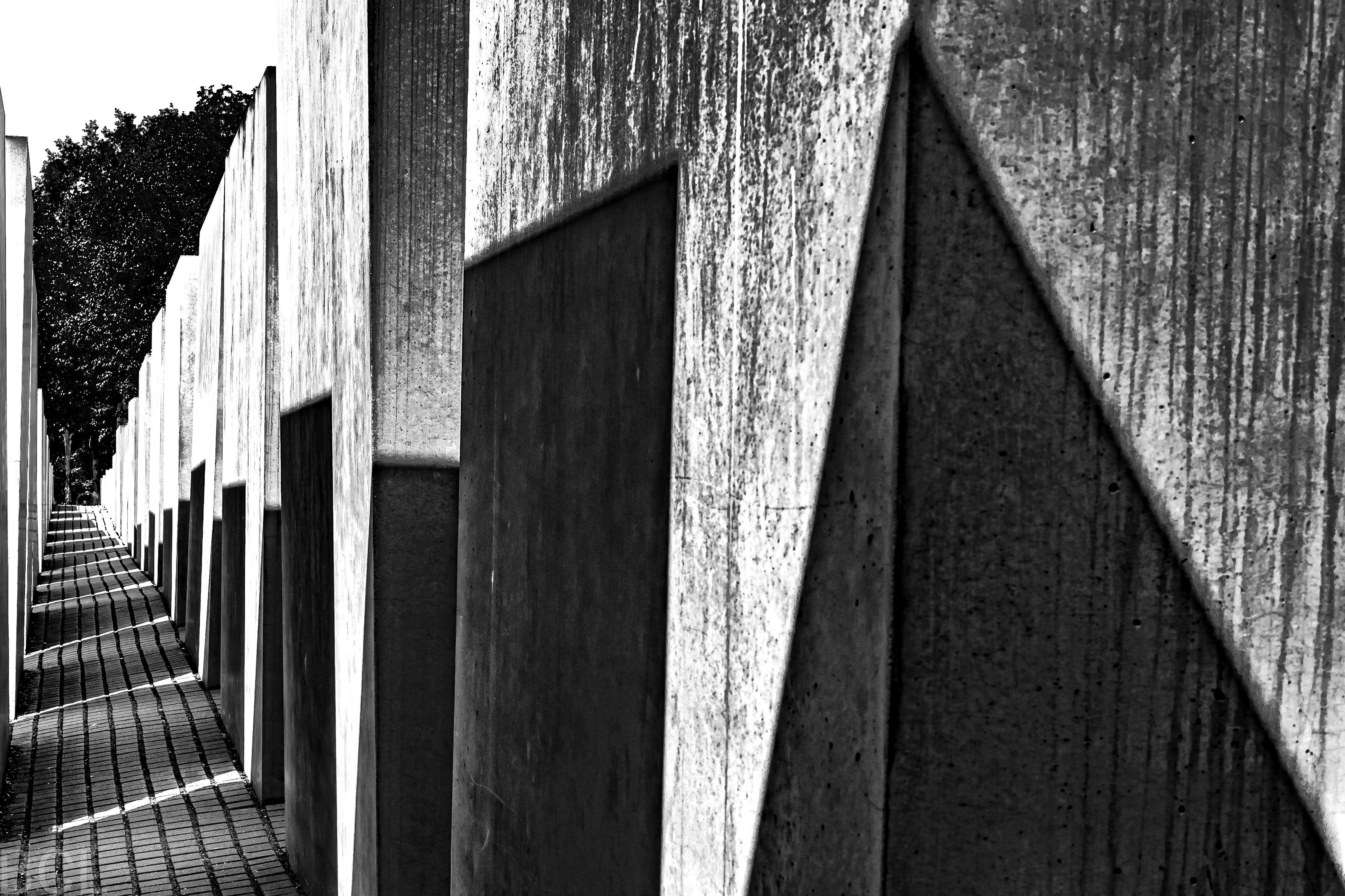 Triangular shape in the midst of rectangular stone blocks in the undulating alleys of the Holocaust Memorial in Berlin